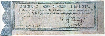 Phoenix paper moeney (greek currency)